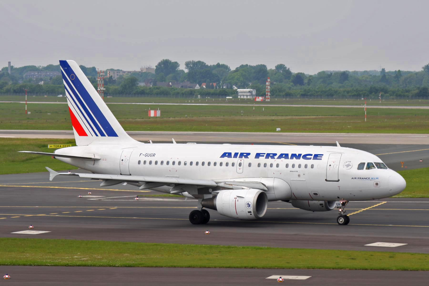 A picture of an airplane (name of it is on the file name).